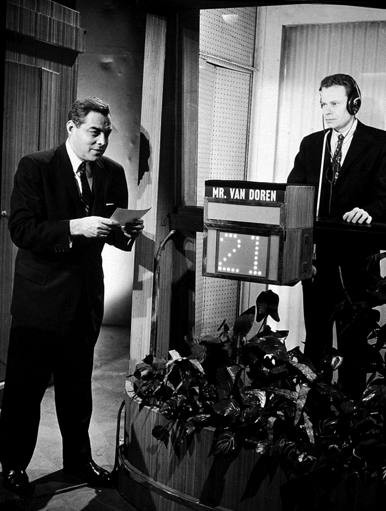 Photograph of Jack Barry and Charles Van Doren on the television show Twenty One